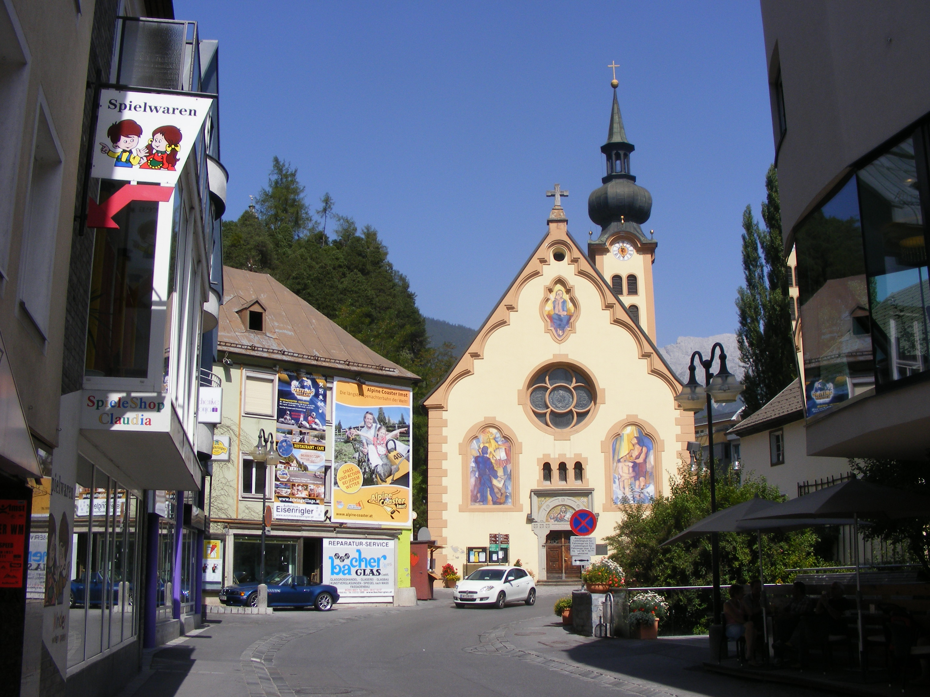 Johanneskirche, Imst, Austria